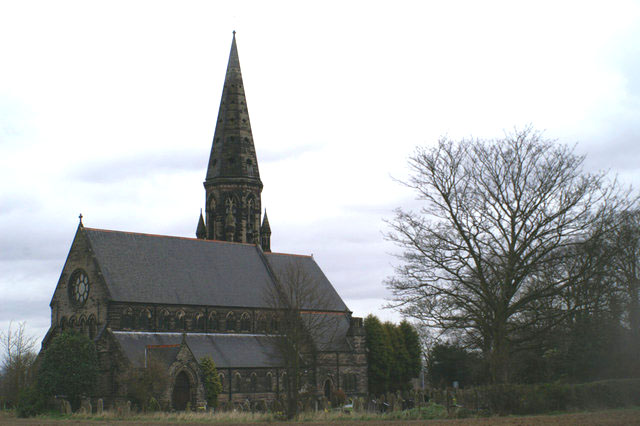 St Peter's parish church, Oughtrington, Cheshire, seen from the southwest